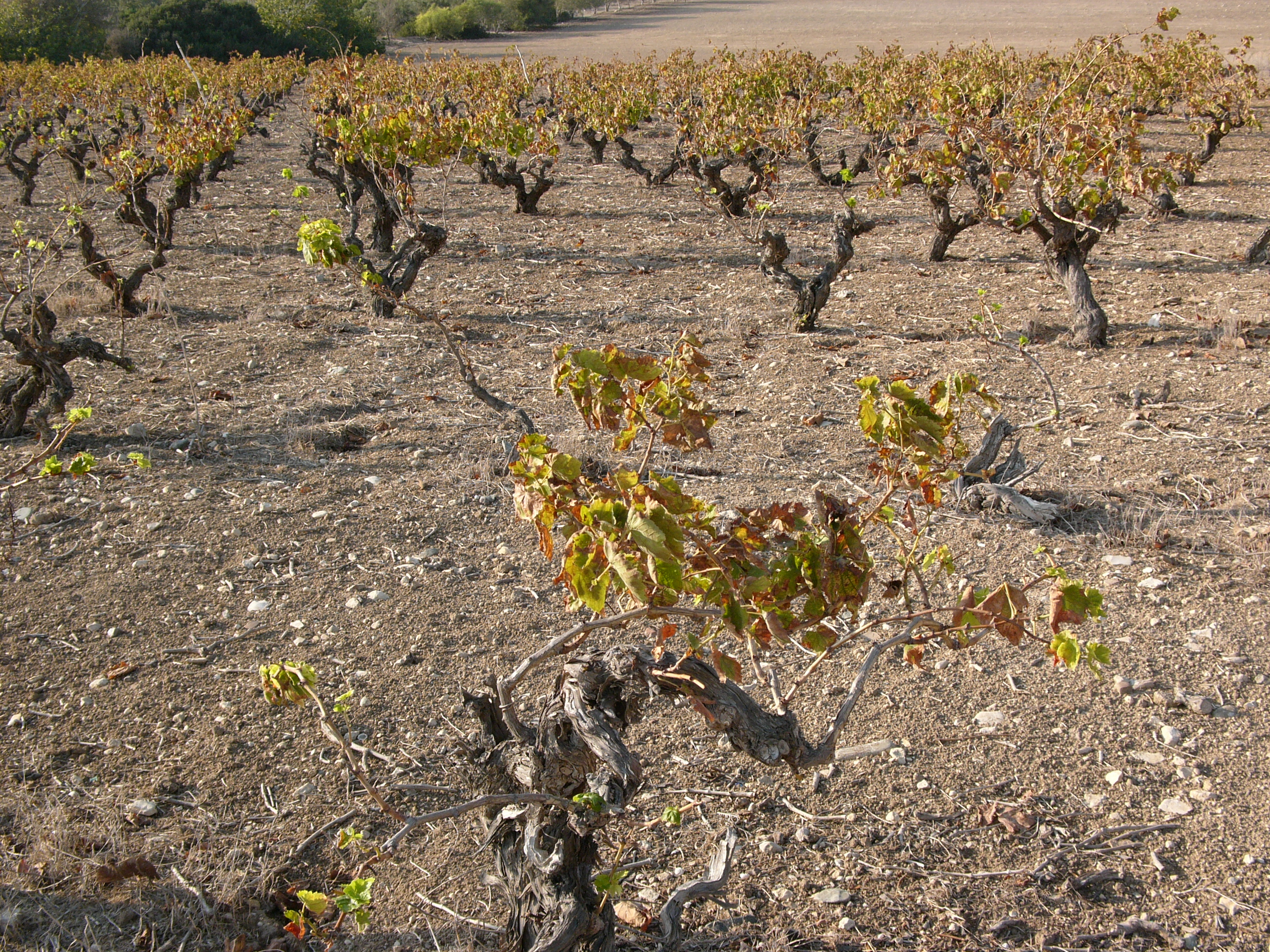 Wine field on cyprus